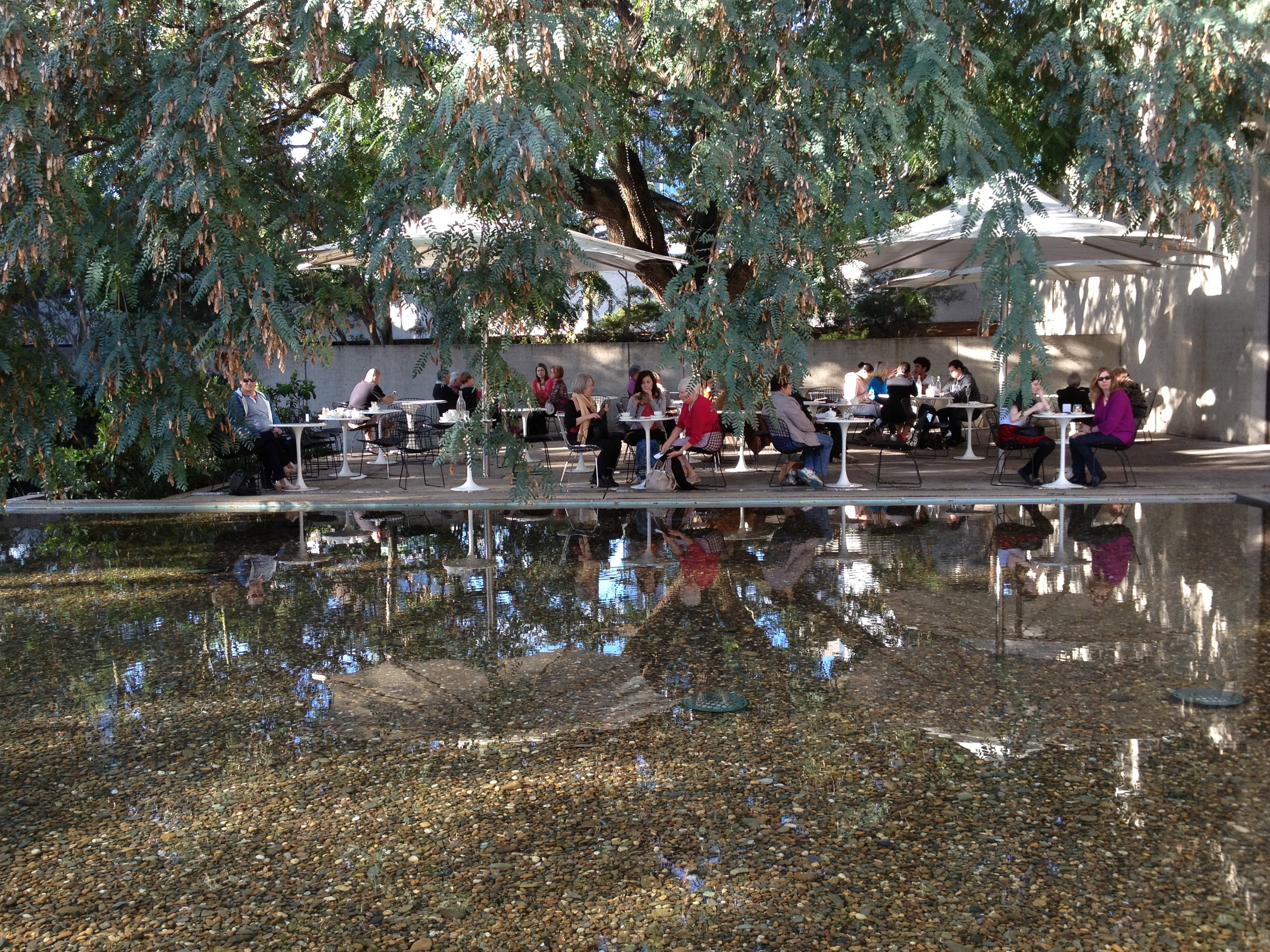 Café at the Queensland Art Gallery, 07.2013